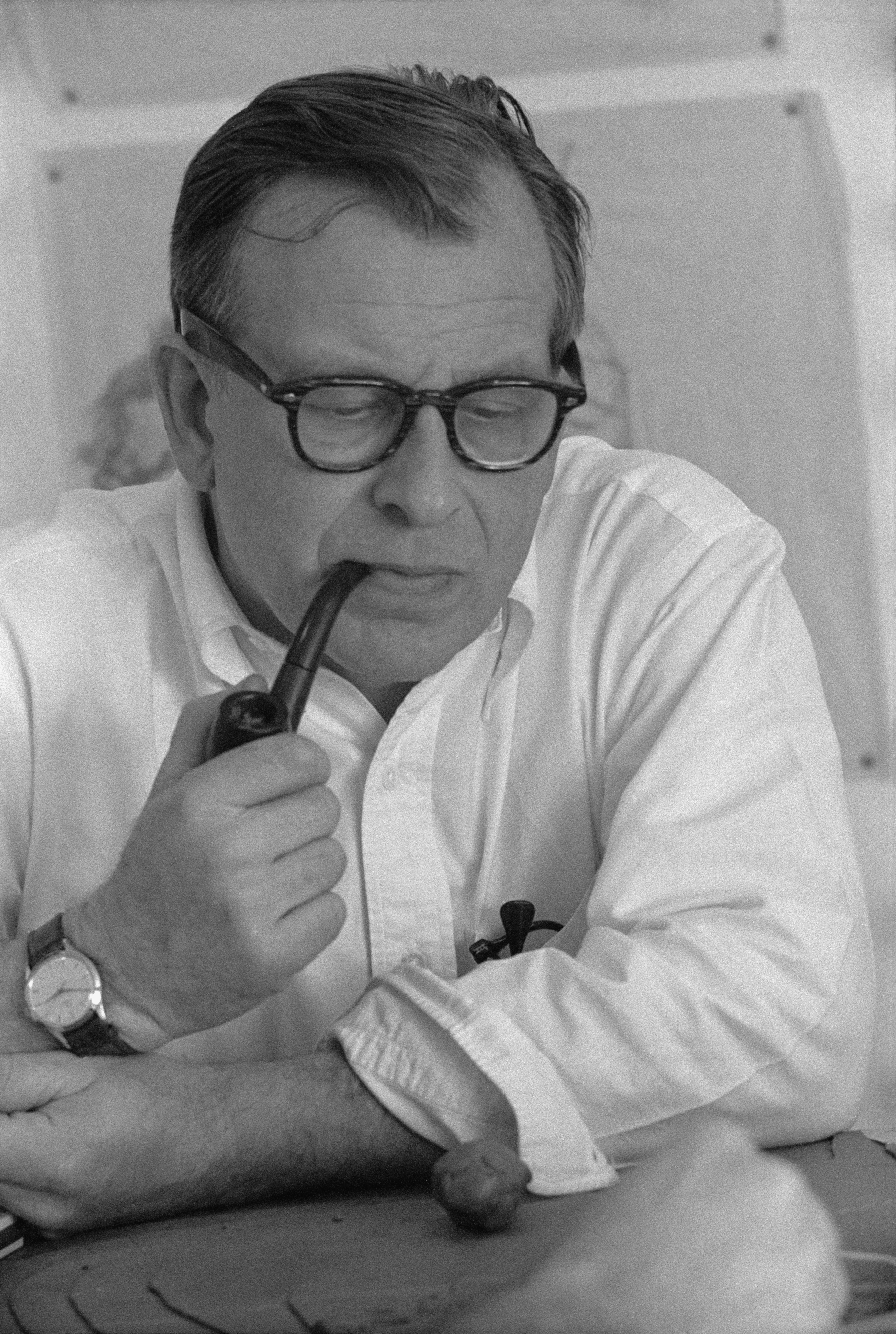 Photograph of the Finnish-American architect Eero Saarinen (1910–1956). Note: No known restrictions on publication. Balthazar Korab Archive (Library of Congress).